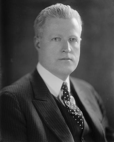 Lewis Henry, Congressman from New York